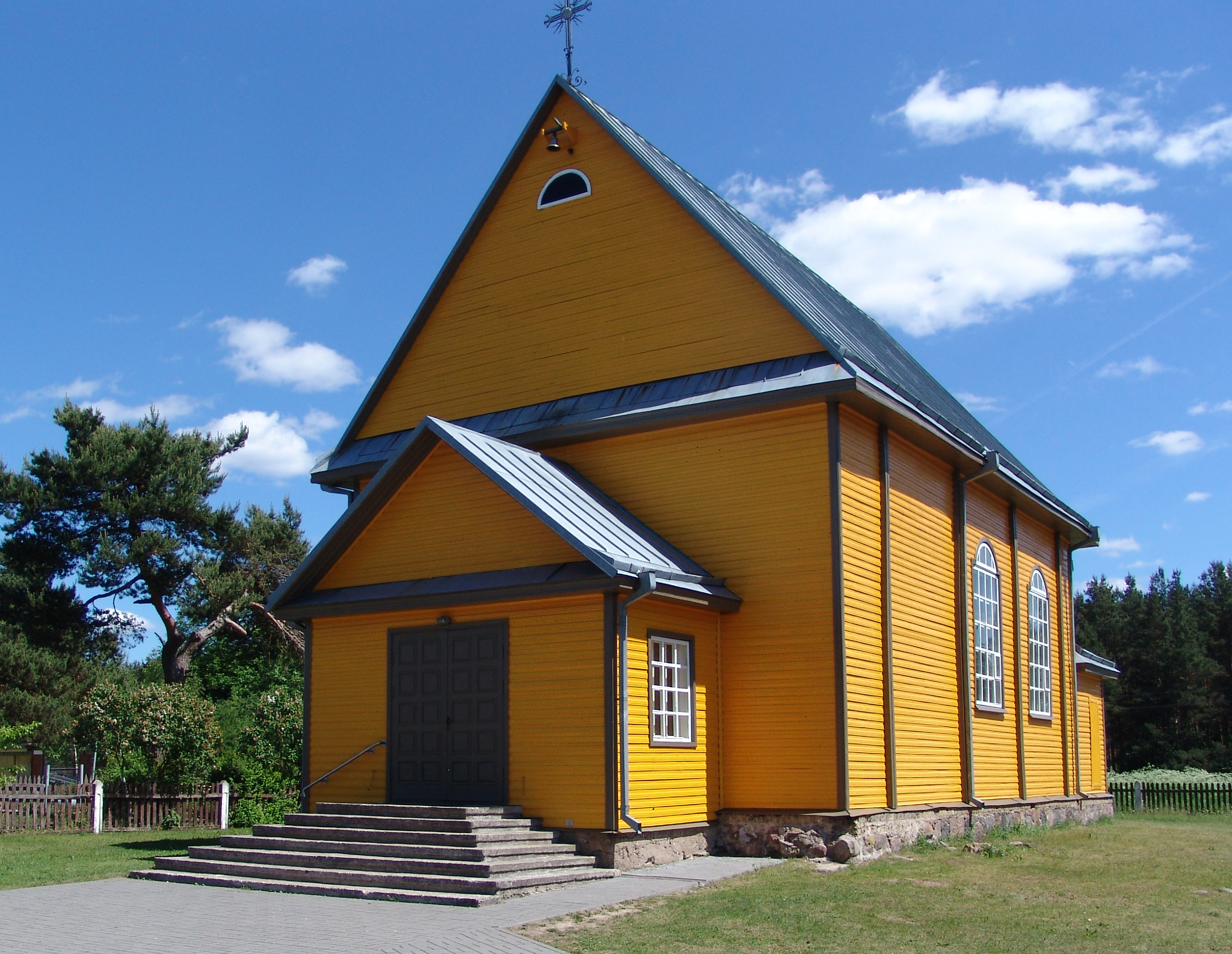 Bezdonys Church